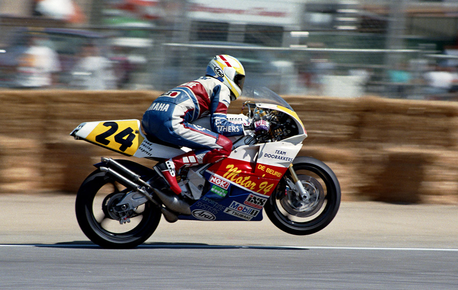 Cees Doorakkers, racing at Laguna Seca